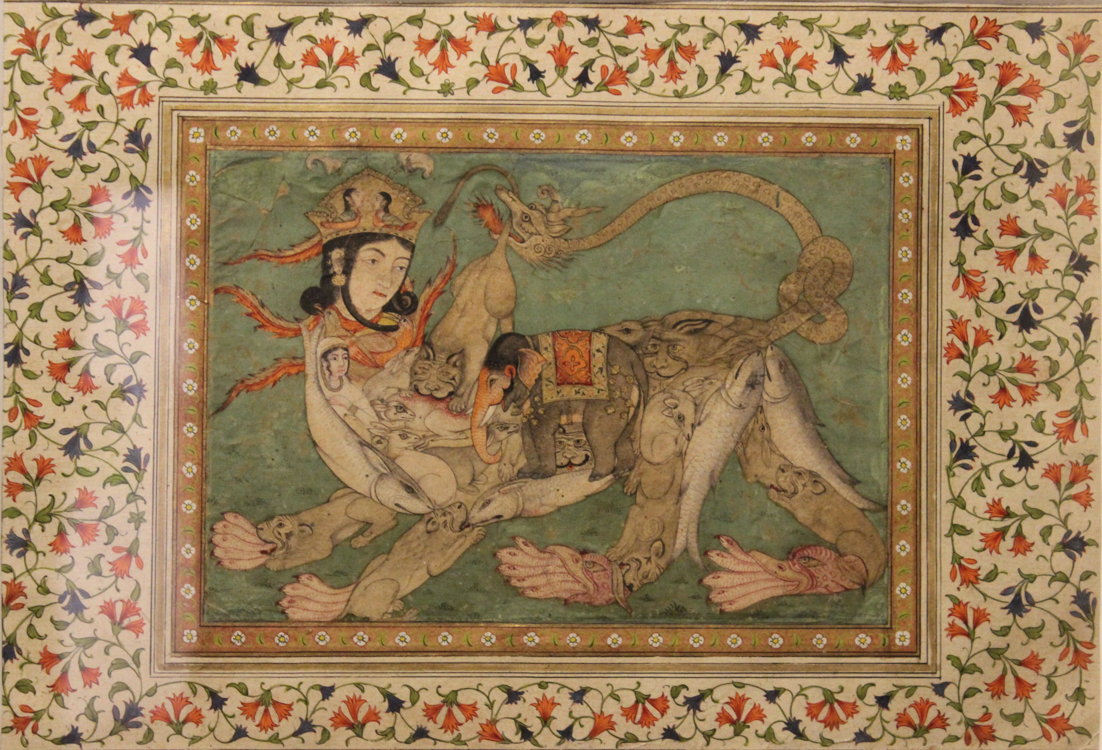 Hyderabad, 1770-75 paper; 26x38 cm acc. no. 58.58/158 this buraq is emblematic of the Deccan's cosmopolitanism. many visaul tradition are interwined in this image cousing through Central Asia, Turkey and Iran but at the centre, most prominently placed, is the elephant that is native to India, tenderly sheltering a frightened deer.